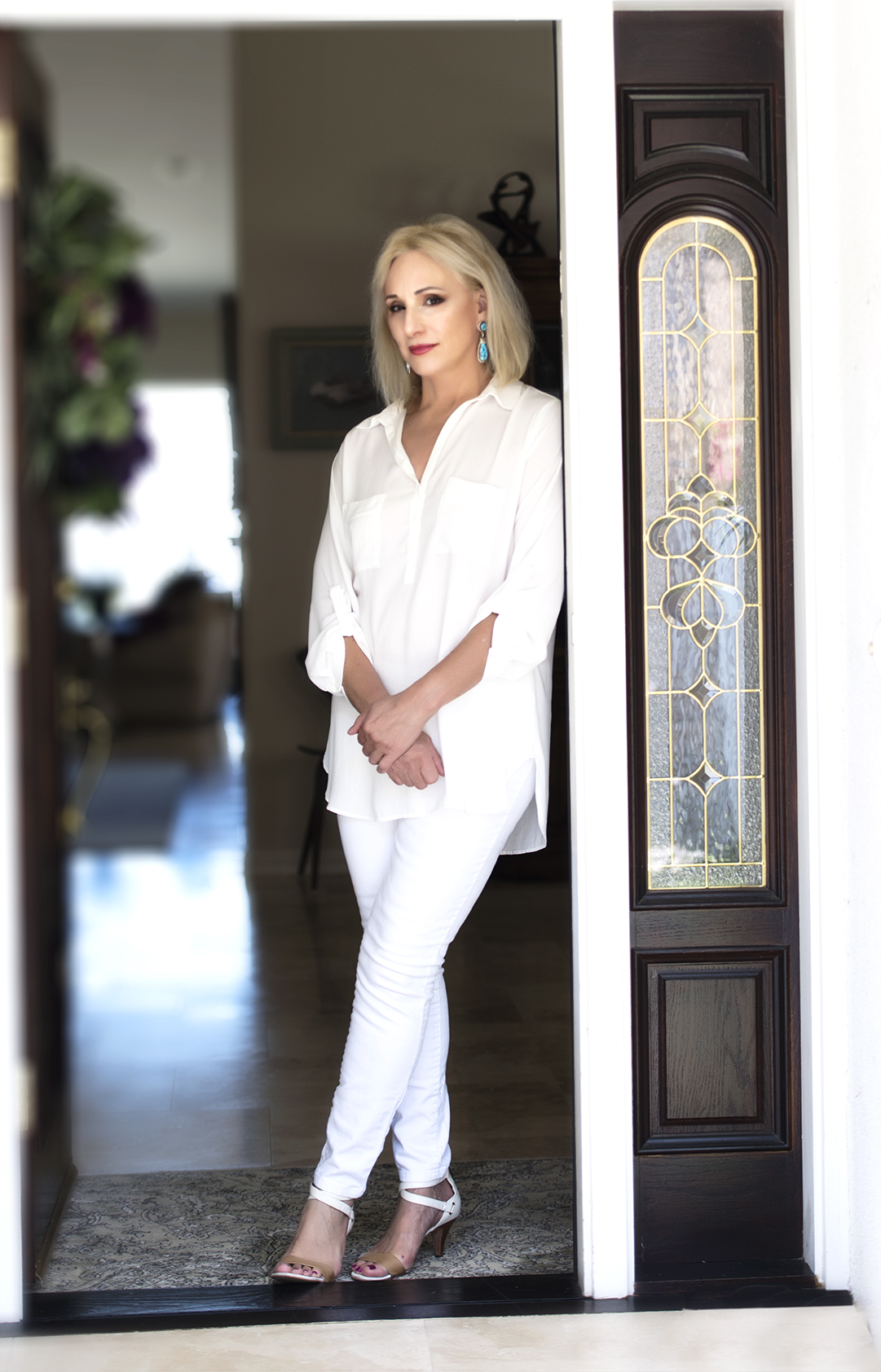 Ms. Stanley at home preparing for a photo session for Moonlight Sessions albums.